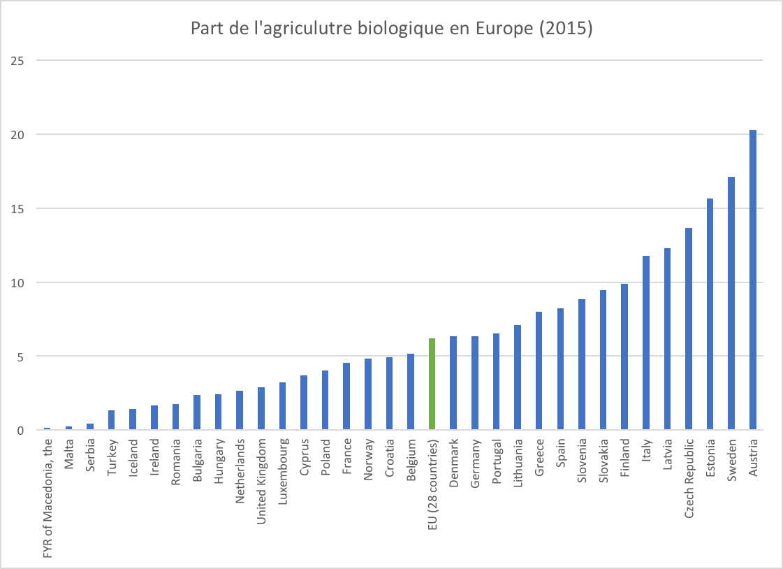 It describes the area of organic farming in Europe by country. Data is provided by Eurostat (indicator tsdpc440)